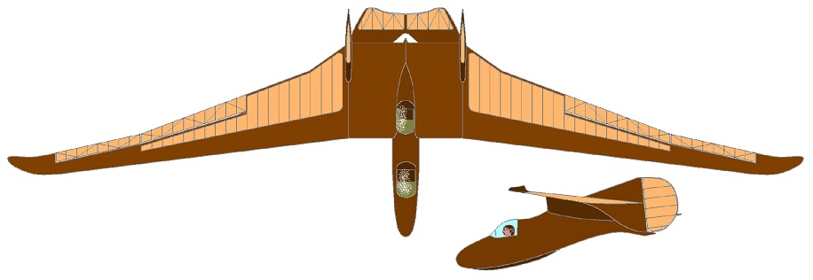 Zagi BP3